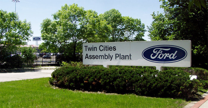 Twin Cities Ford plant, Ford Parkway side.